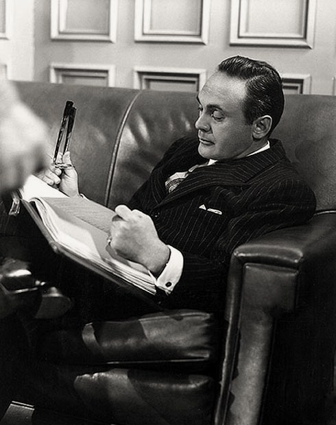 director Edward Buzzell on the set of Easy to Wed - publicity still